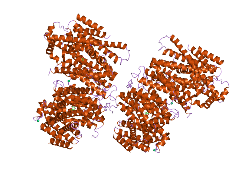 Cartoon representation of the molecular structure of protein registered with 3dh4 code.